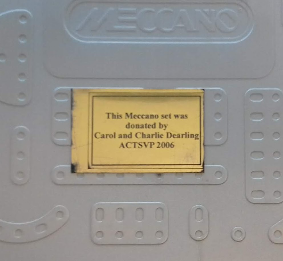 First Meccano Box donated by Carol Dearling to the School Volunteer Program ACT (SVPACT)